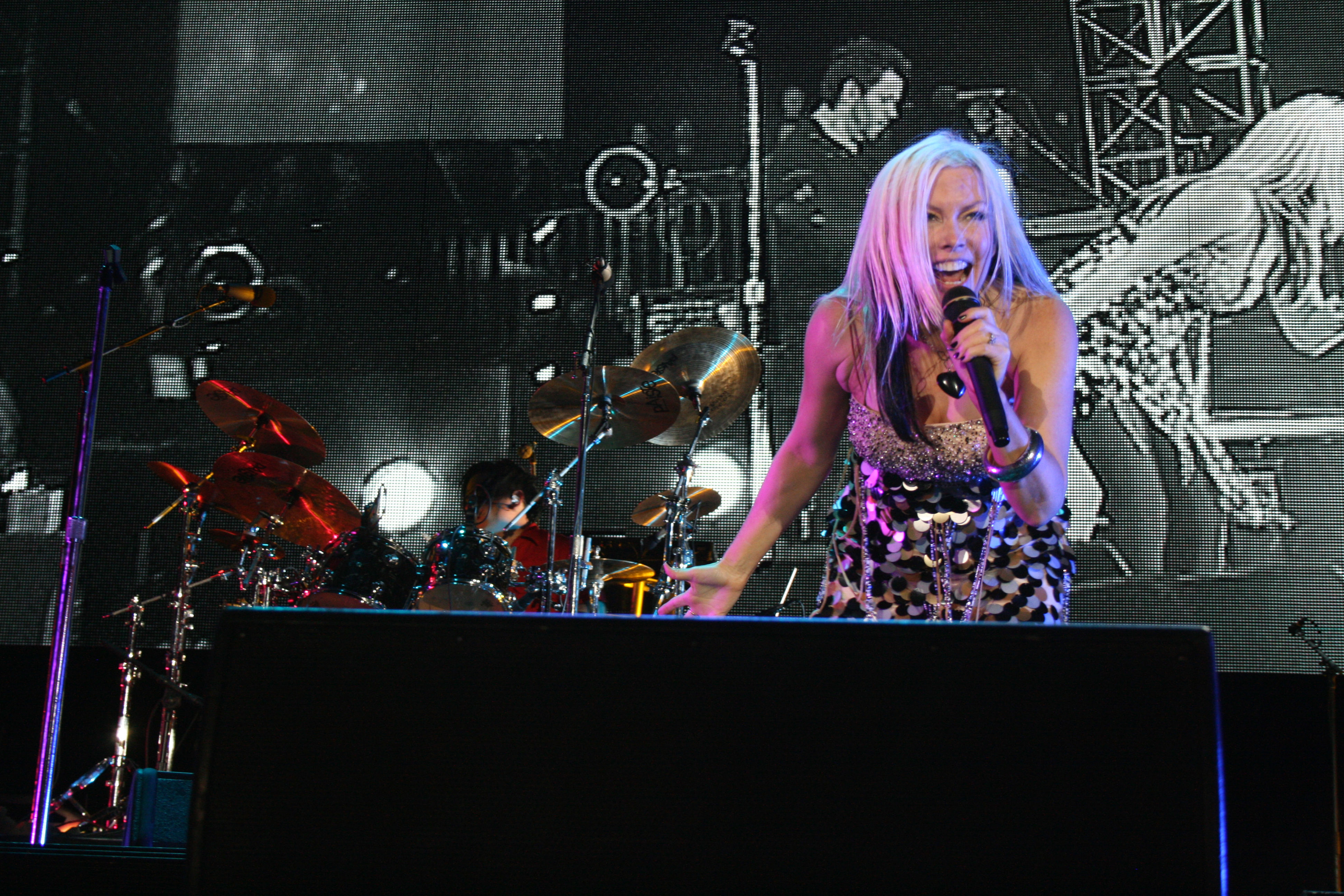 American singer Terri Nunn performing with her reformed band "Berlin", at Oracle OpenWorld.